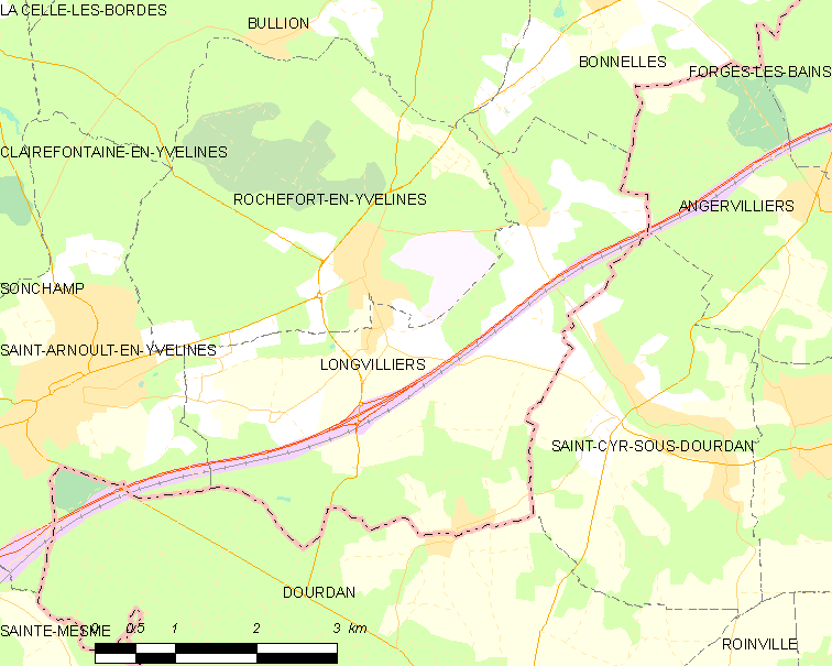 Map of French municipality Longvilliers